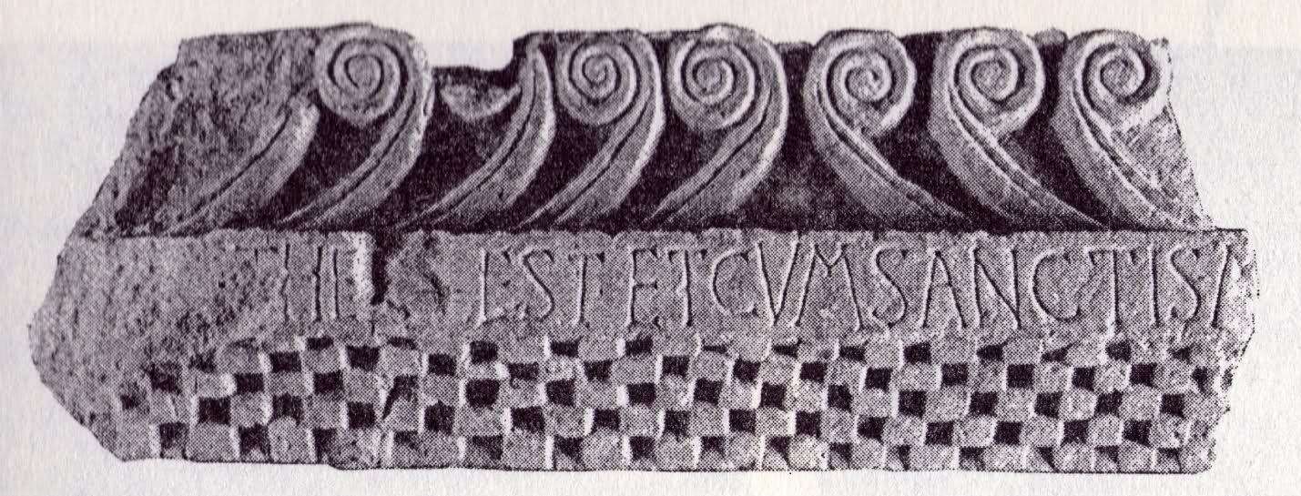 Fragment from the church of St. John of Nimfa, Pula, 9th century